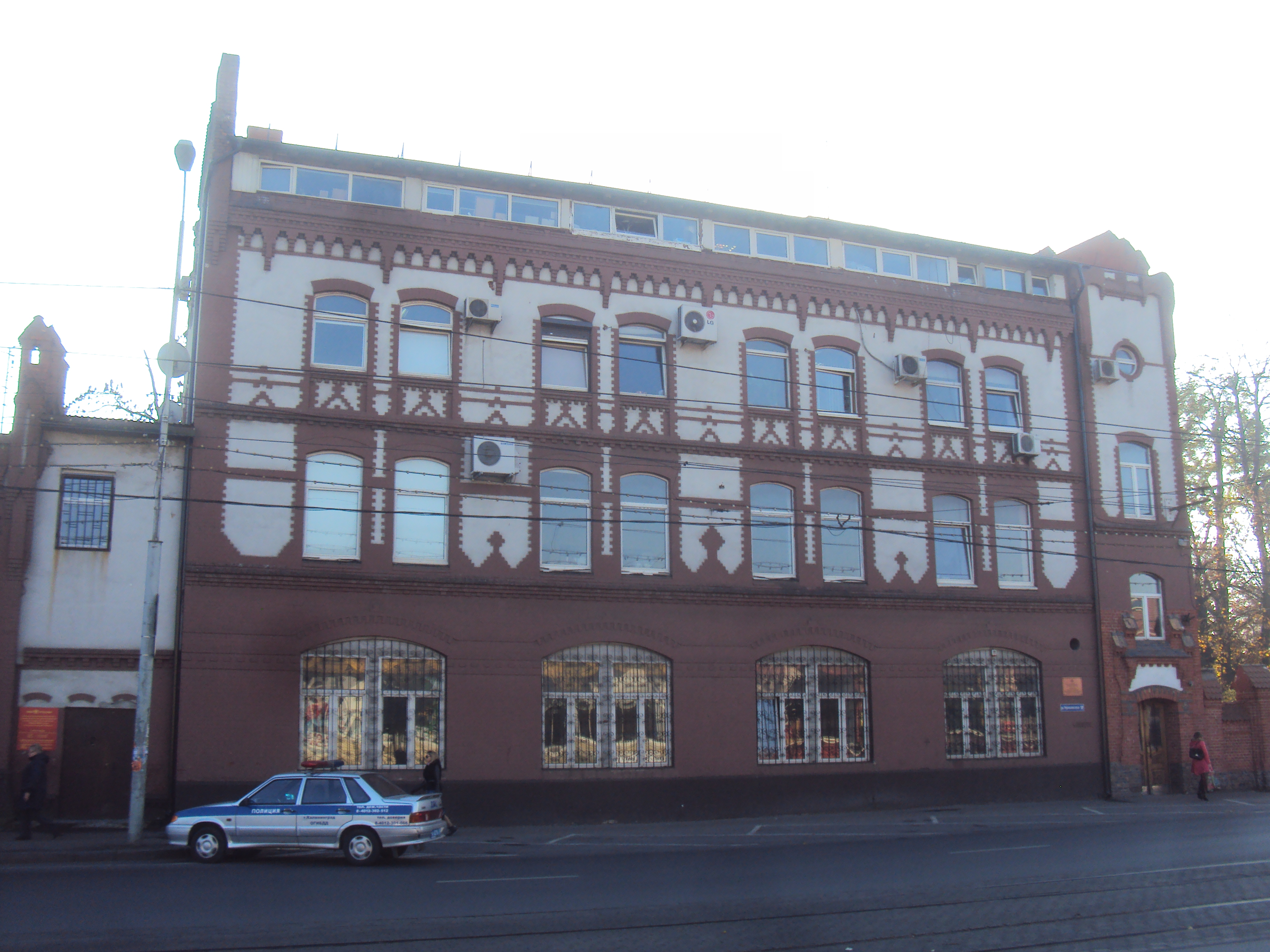 The building of the northern fire station